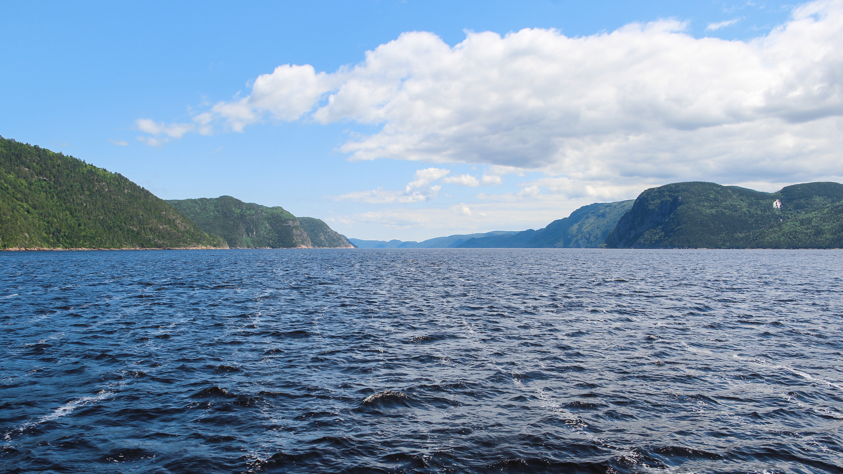 Saguenay River in 2012